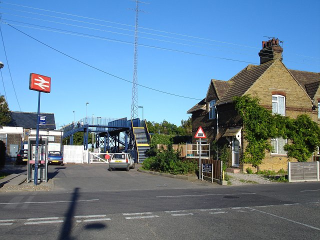 Teynham Station